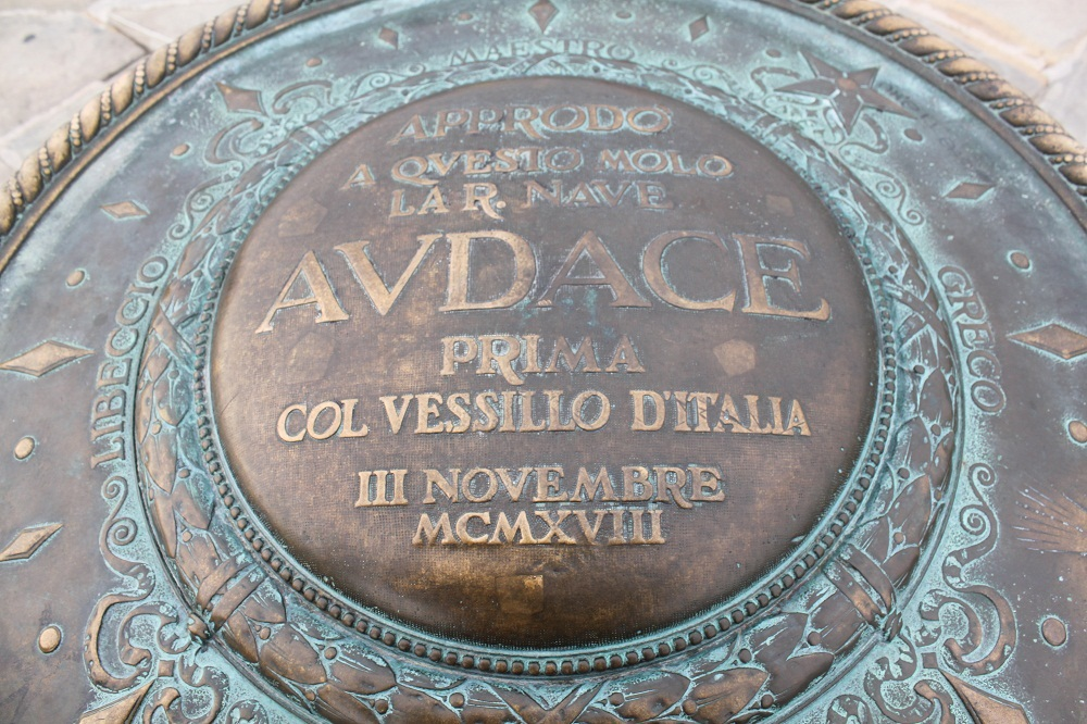 Italian monument to the occupation of Trieste following the armistice of Villa Giusti of 3 November 1918